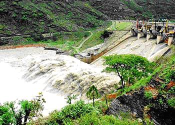 View of Spillway of Pando dam